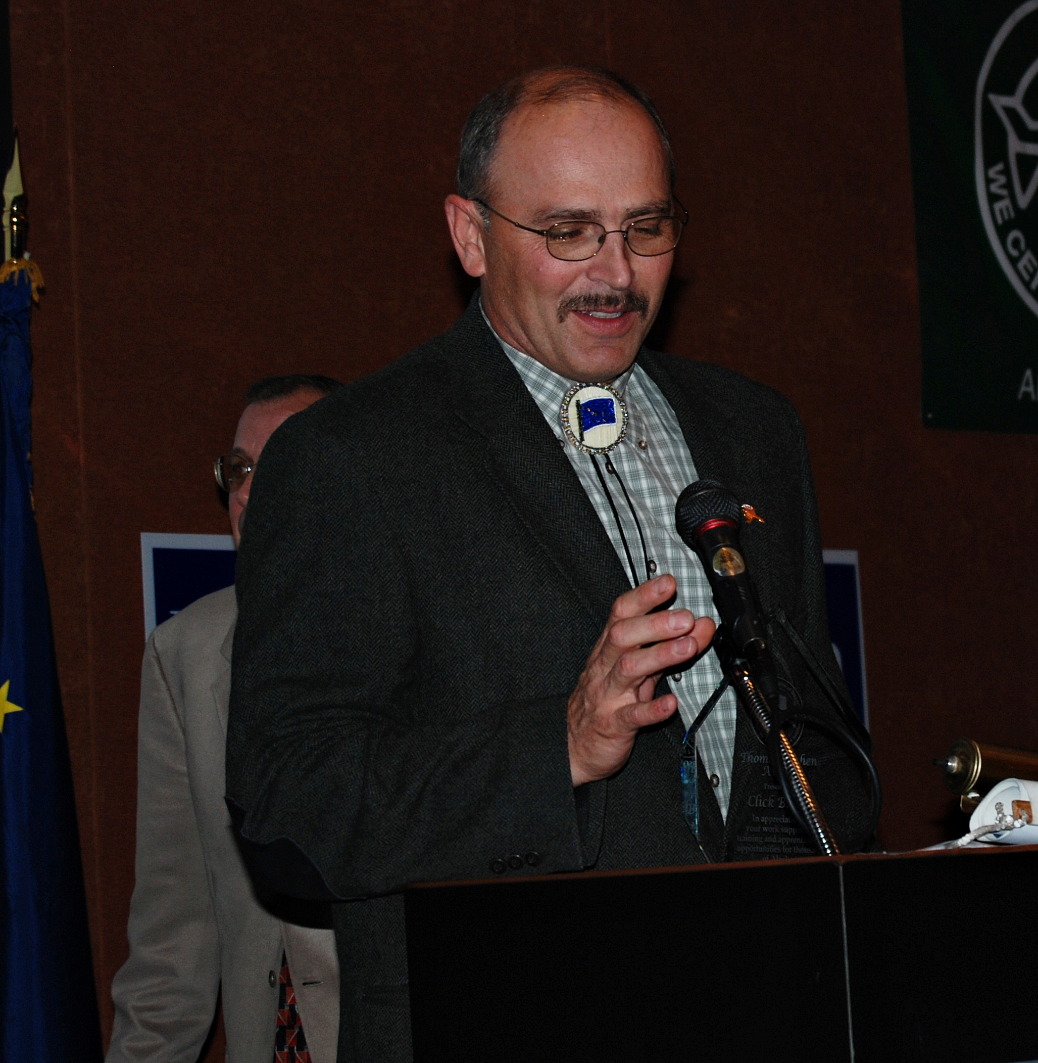 Clark C. "Click" Bishop (born 1957) is an American politician and former labor union official. Born in Mexico, Missouri, Bishop has lived in Alaska since he was a toddler and in Fairbanks since he was a teenager. Long associated with the Operating Engineers union, he worked his way through union ranks and was serving as commissioner of the Alaska Department of Labor & Workforce Development at the time of this photo, taken at the 2008 Alaska AFL-CIO convention. He has been a Republican member of the Alaska Senate since 2013.